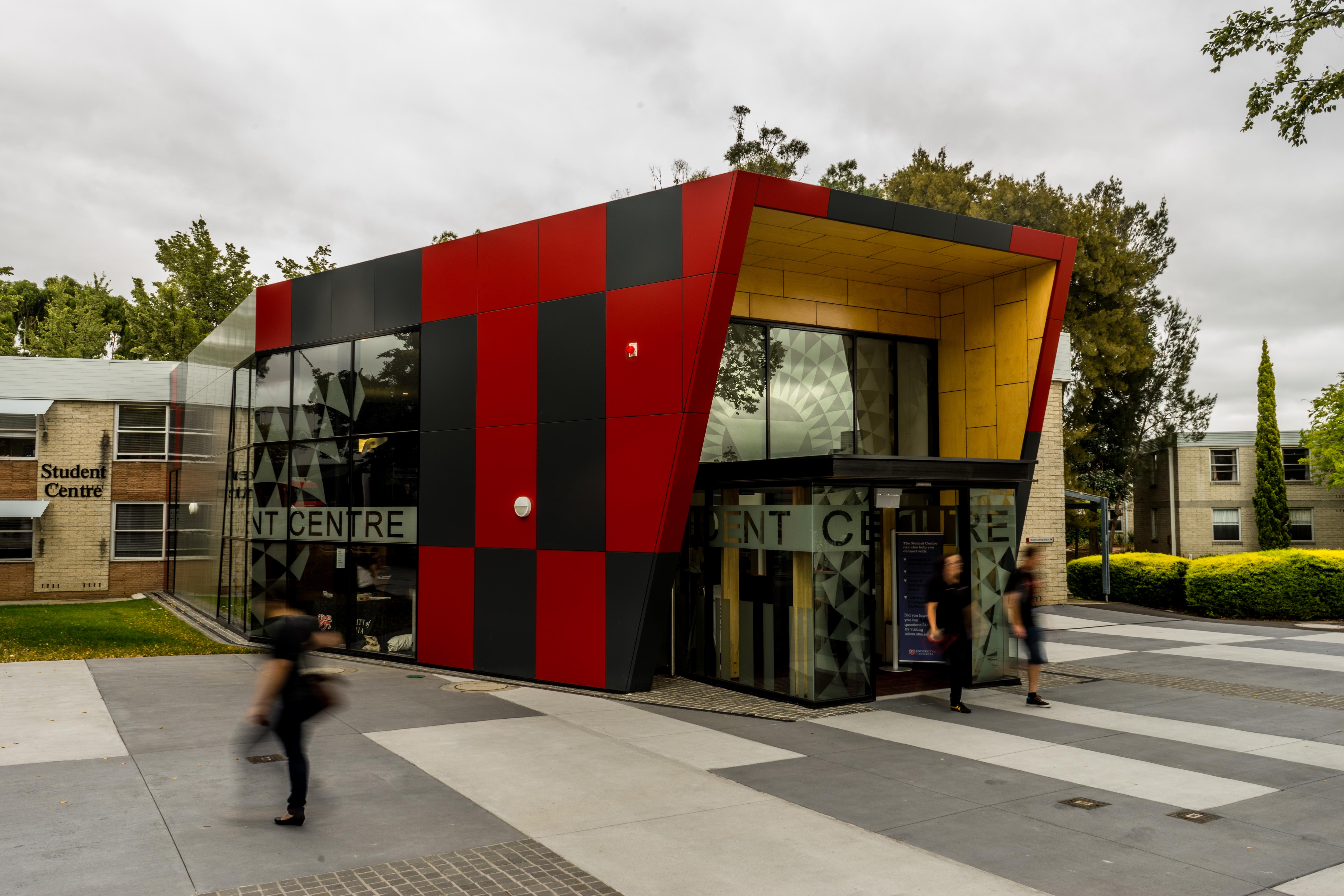 A picture of the recently completed student center on the northern Campus